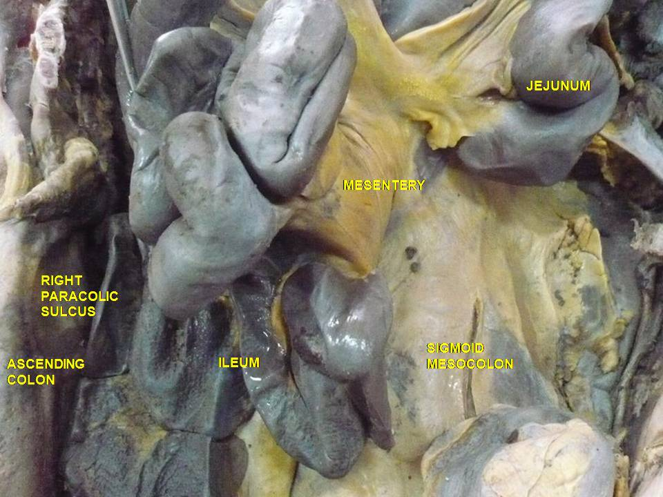 Anatomical dissections